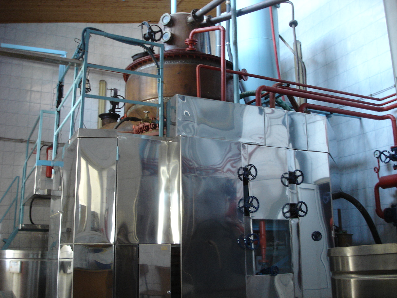 Distillery in Grozd Strumica, Macedonia